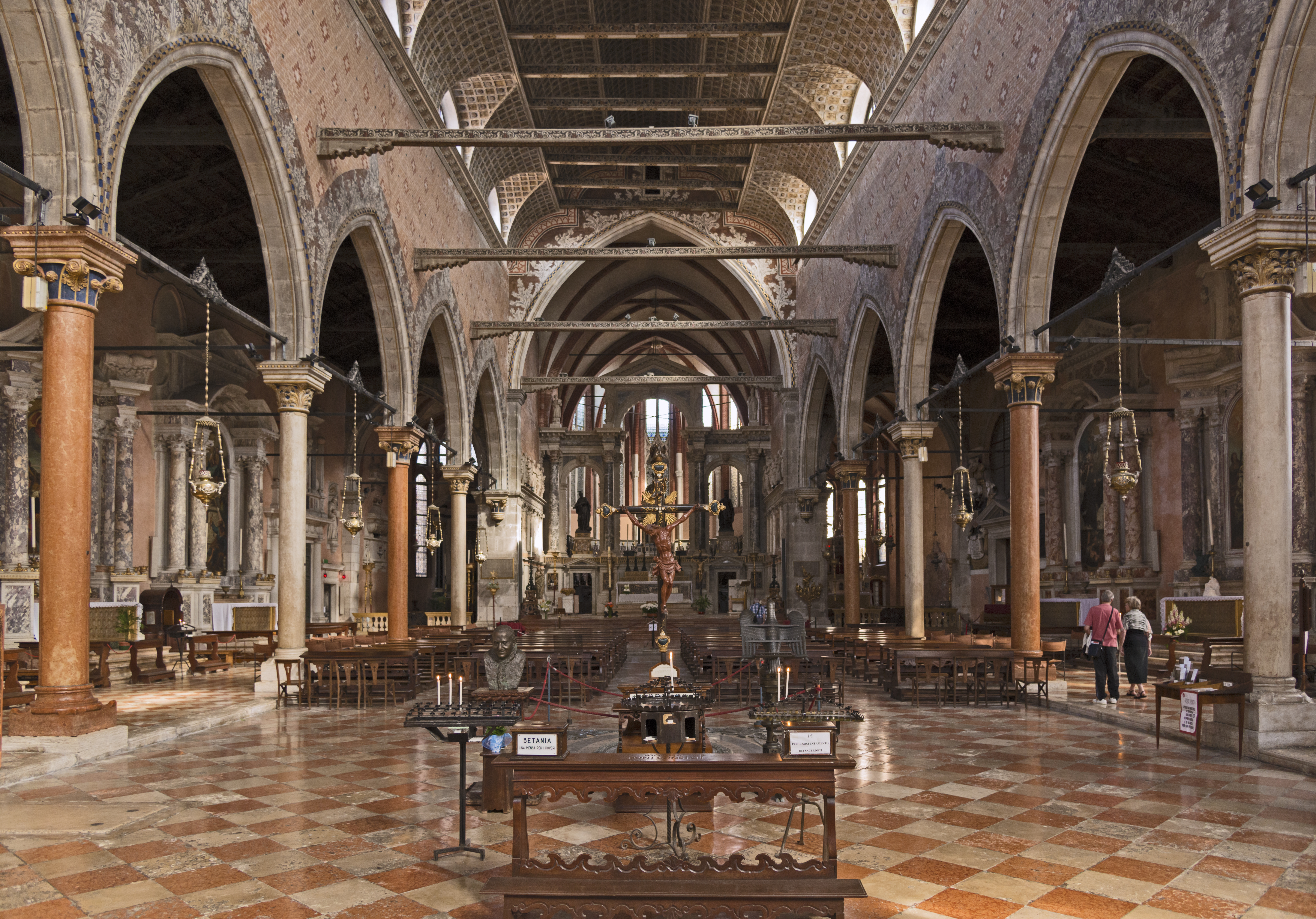 Nave of Church Santo Stefano Venice.